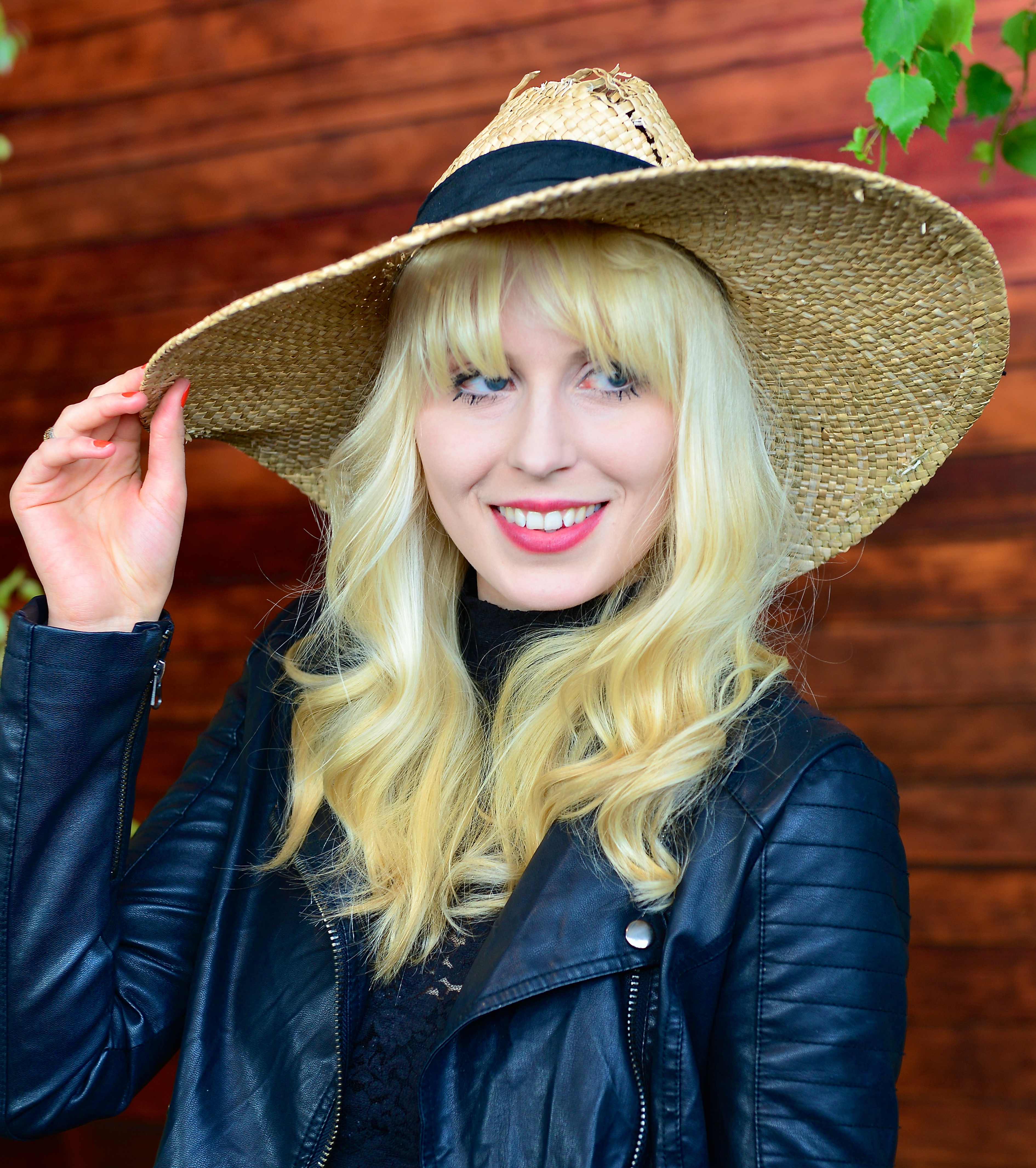 Amanda Jenssen during the stage presentation to Allsång på Skansen in Stockholm June 11, 2013.